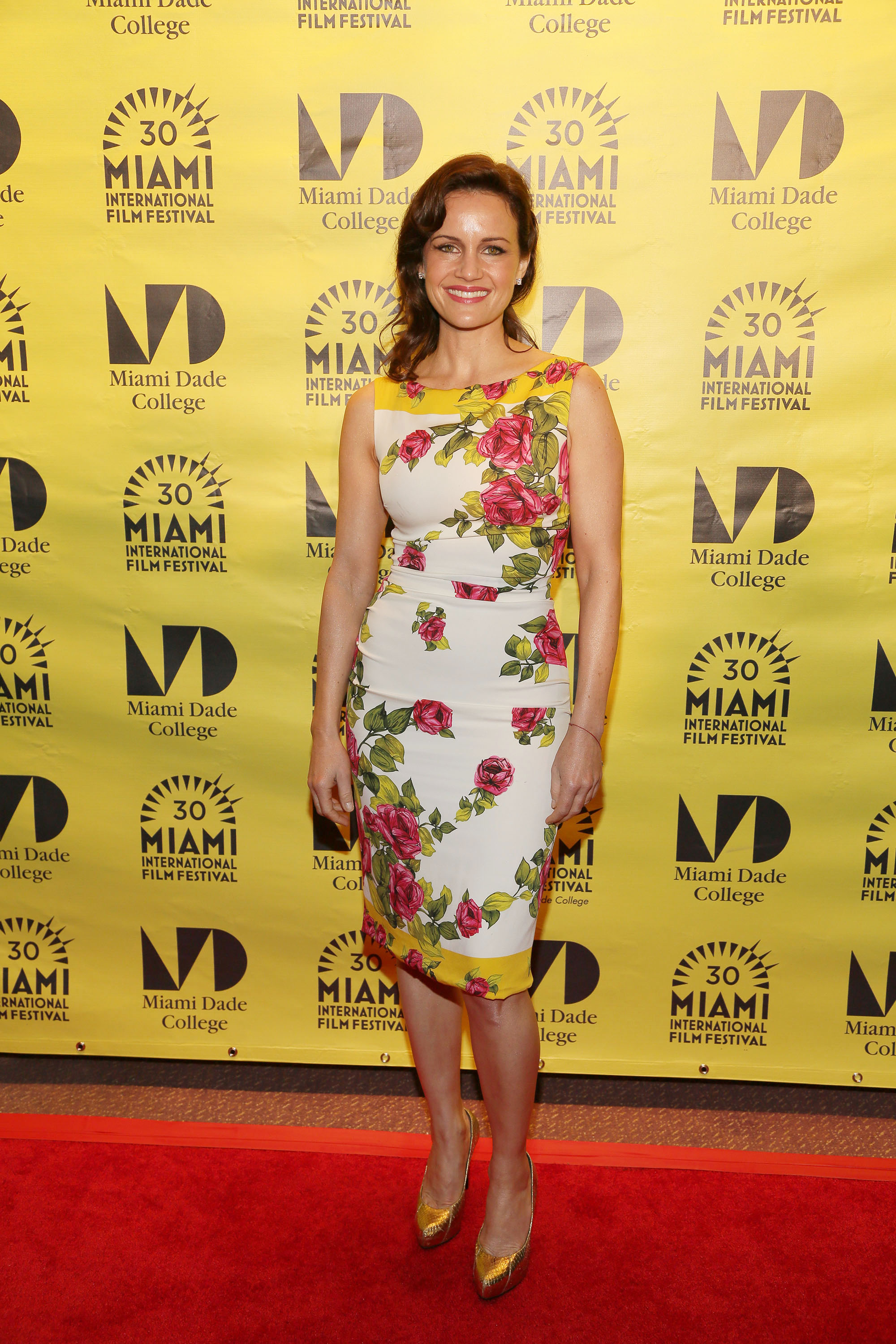 Carla Gugino at the Cast Reunion screening + party of the 1995 classic "Miami Rhapsody" at the 2013 Miami International Film Festival